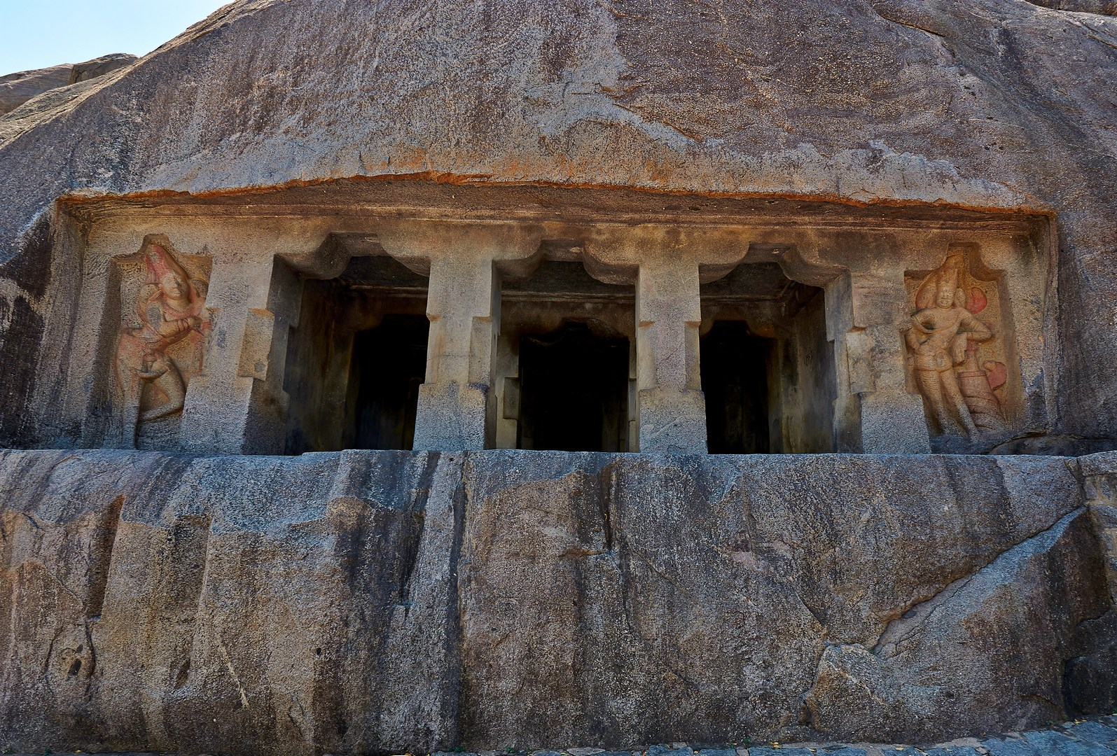 Mandagapattu first rock cut cave in tamilnadu by mahendravarmapallva,villupuram district